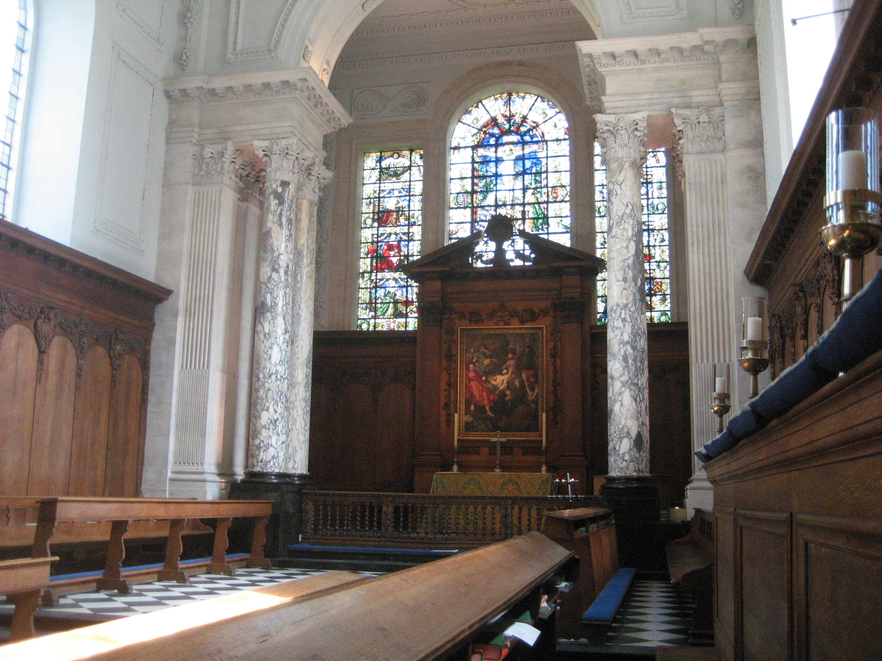 Pembroke College Chapel, Cambridge, England (UK)